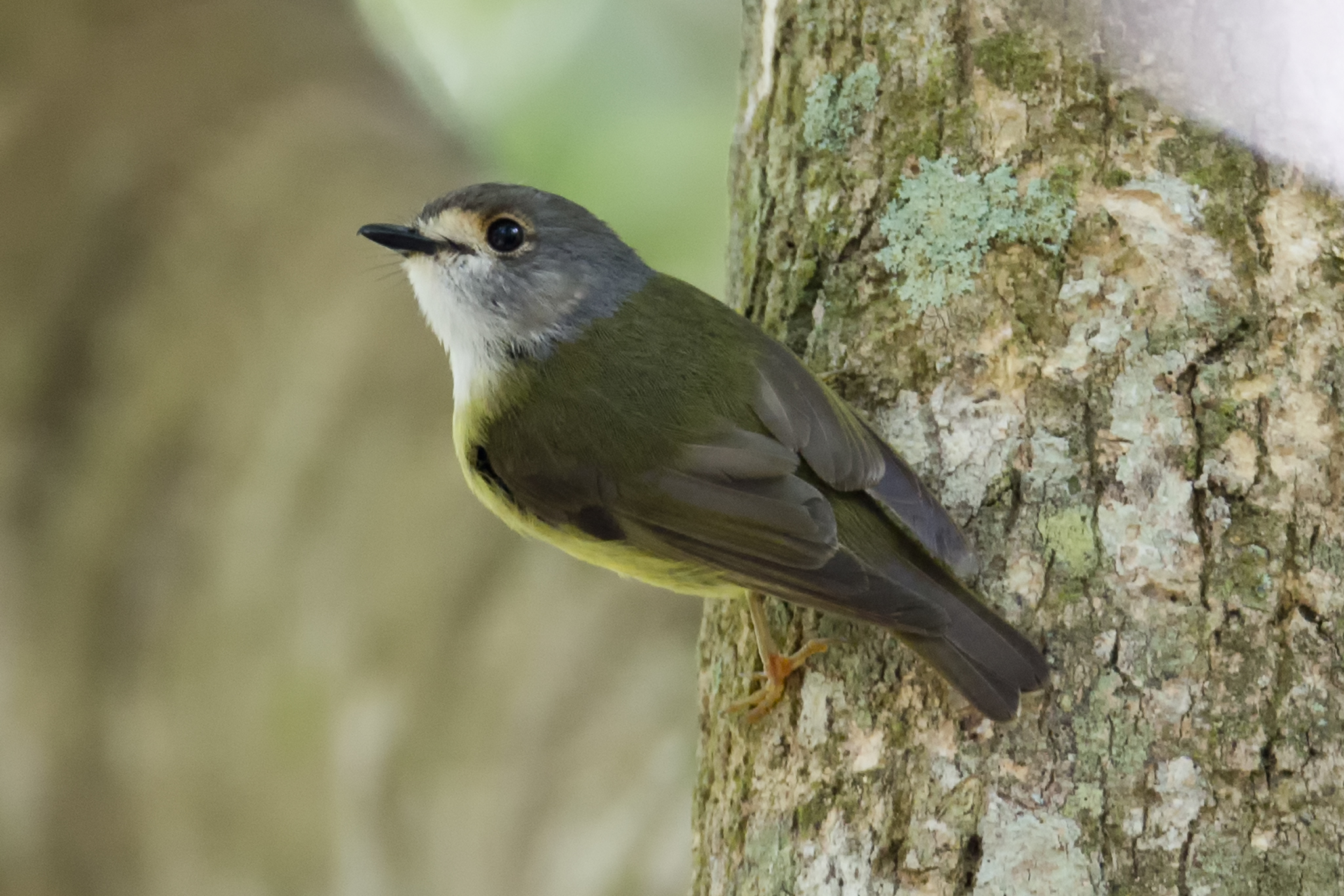 Pale-yellow Robin (Tregellasia capito). North Queensland